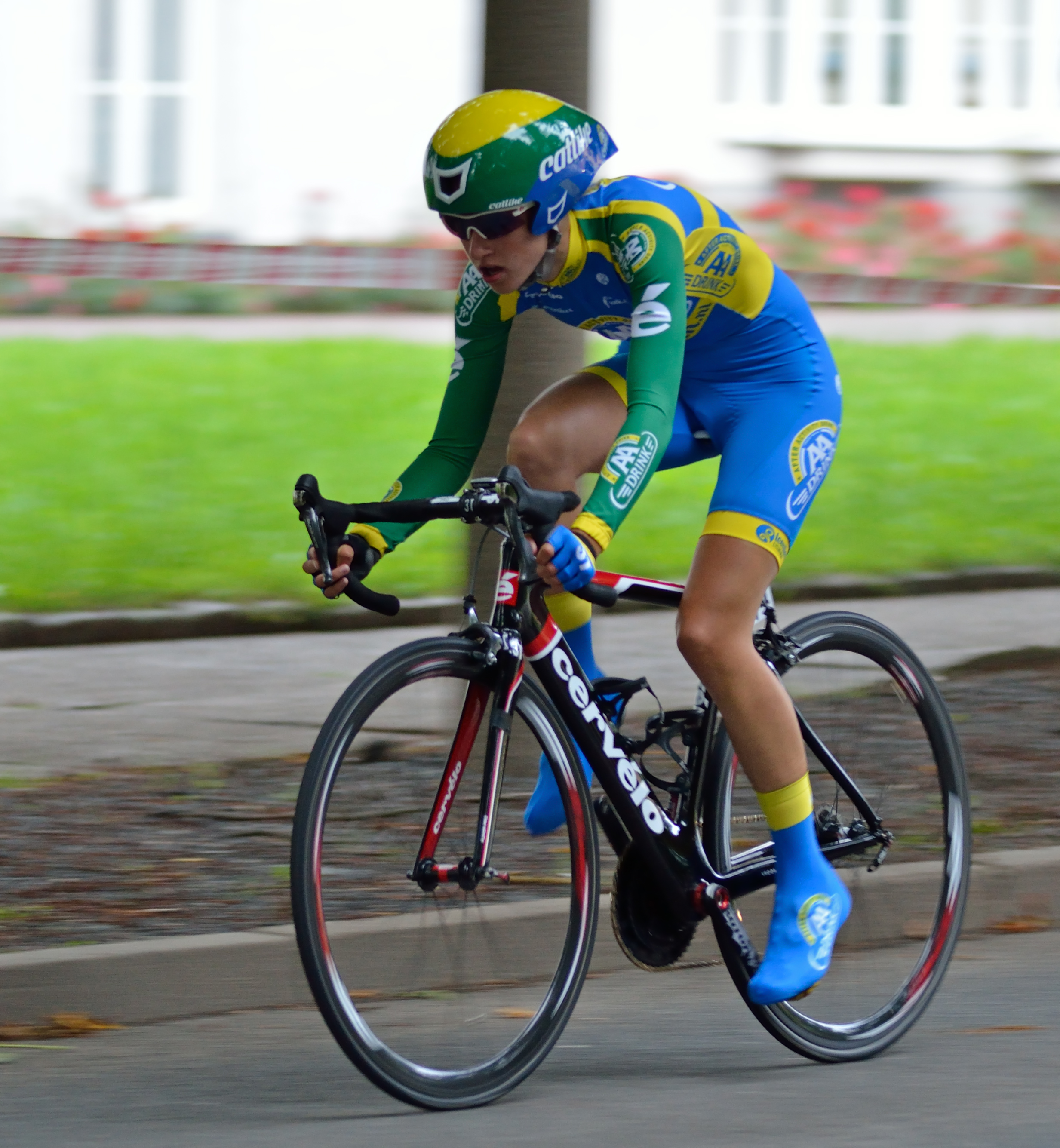 Jessie Daams from the AA Drink-leontien.nl team during the Women's Tour of Thuringia 2012 in Zwickau, Germany.